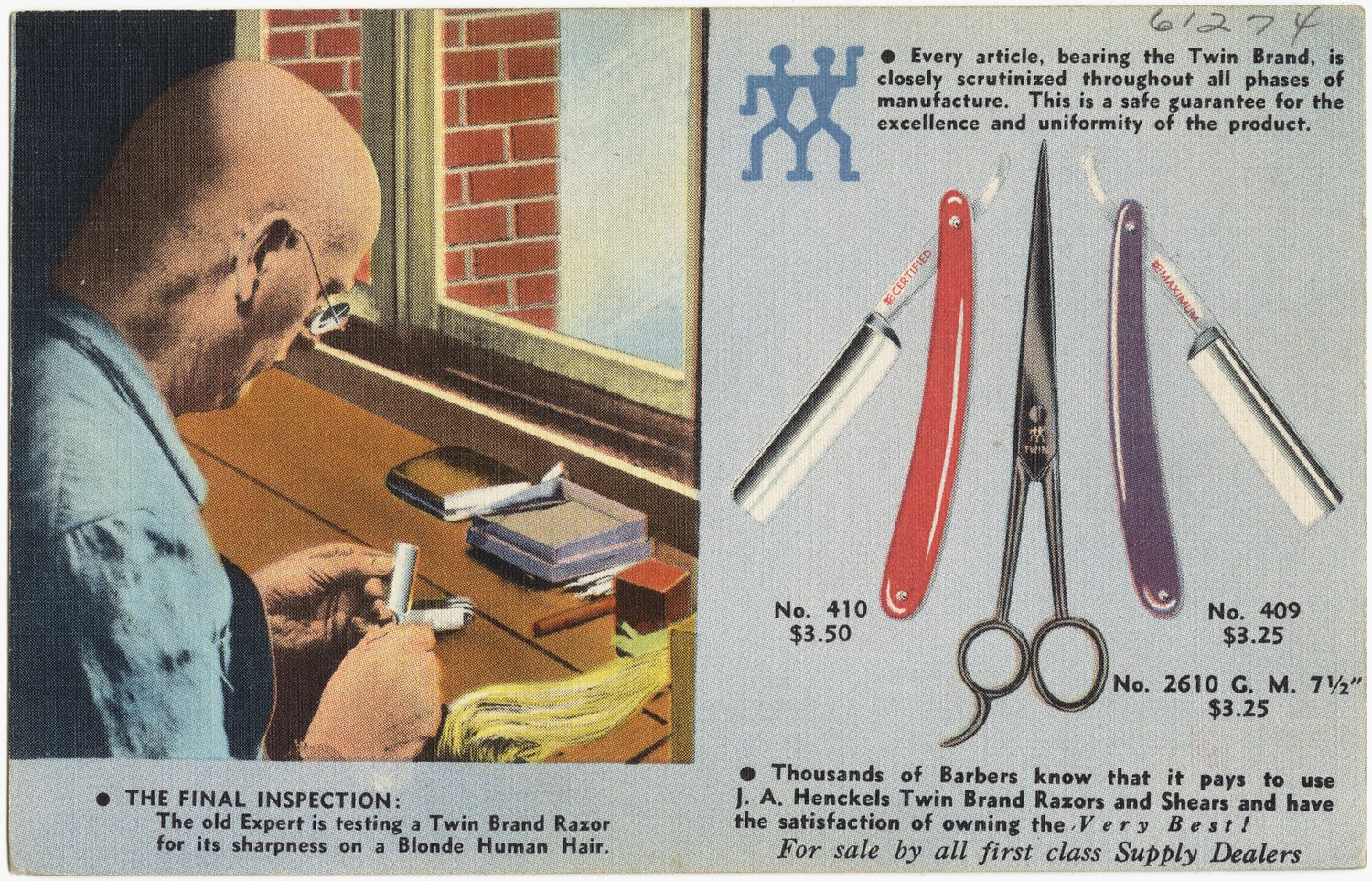 File name: 06_10_005572 Title: Thousands of barbers know that it pays to use J. A. Henckles Twin Brand Razors and Shears and have the satisfaction of owning the very best! Created/Published: Produced by Harry H. Baumann, 216 W. 18th Street, New York, Printed in U.S.A. Date issued: 1930 - 1945 (approximate) Physical description: 1 print (postcard) : linen texture, color ; 3 1/2 x 5 1/2 in. Genre: Postcards Subjects: Notes: Title from item. Collection: The Tichnor Brothers Collection Location: Boston Public Library, Print Department Rights: No known restrictions